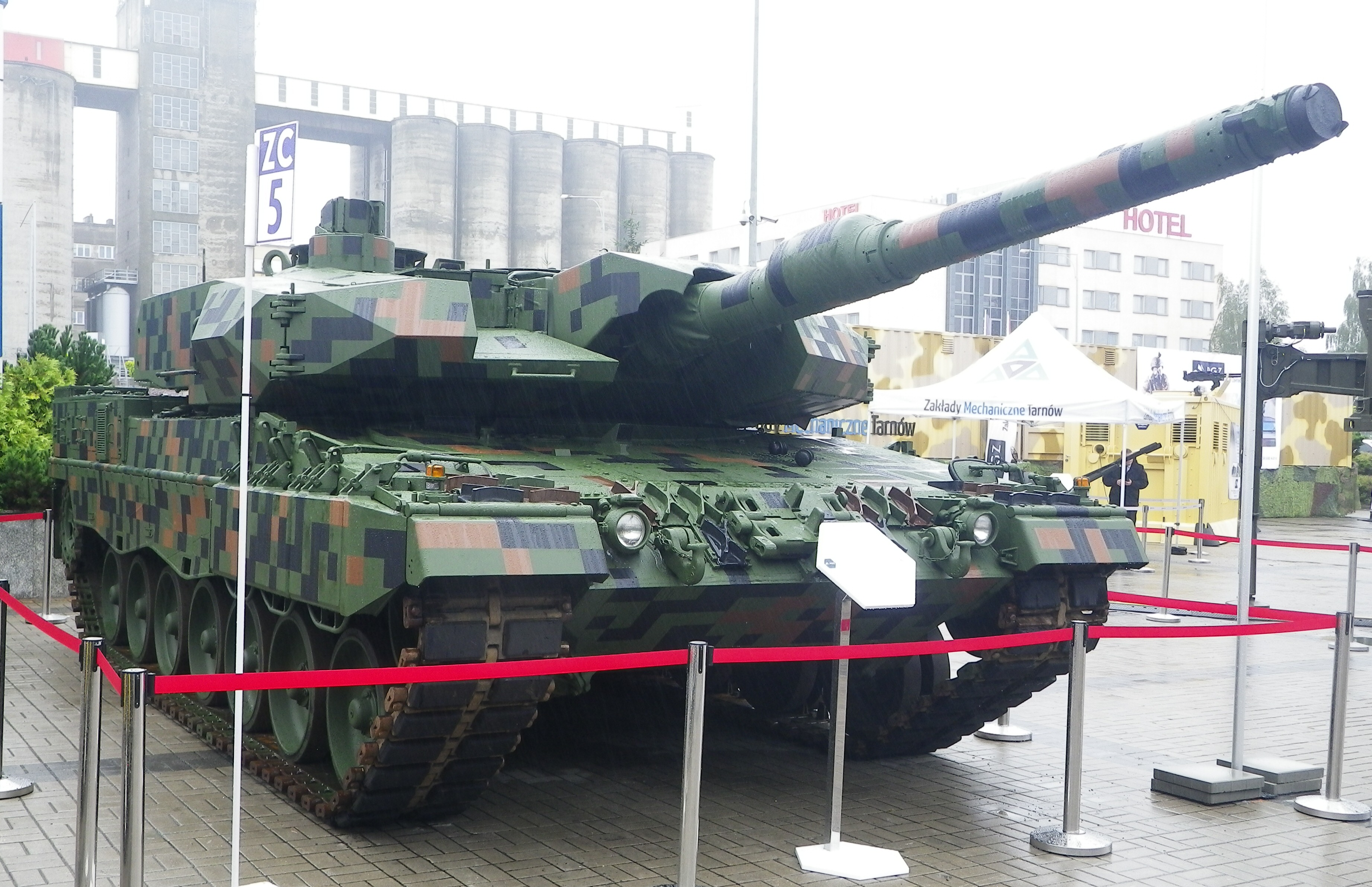 Polish Leopard 2PL (modernized